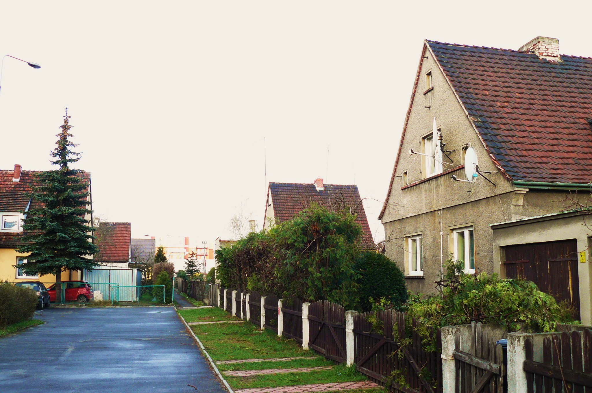 Old part of Zatorze District in Nowa Sol.Grottgera Street.